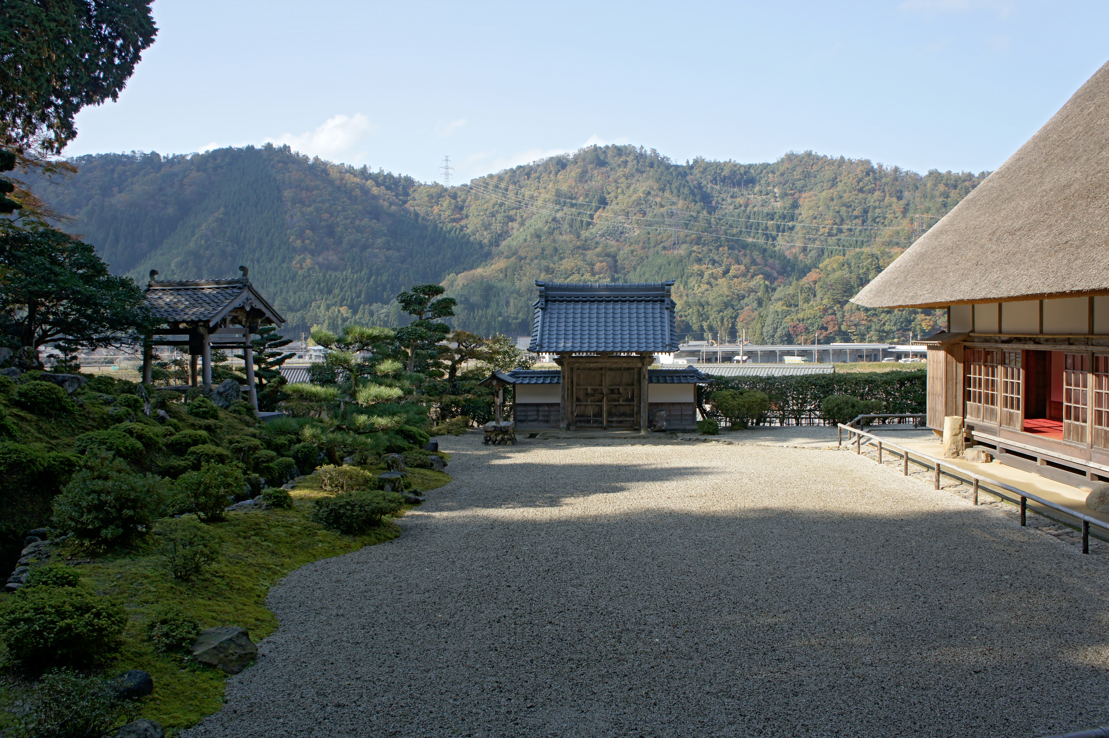 Mantoku-ji in Obama, Fukui prefecture, Japan.